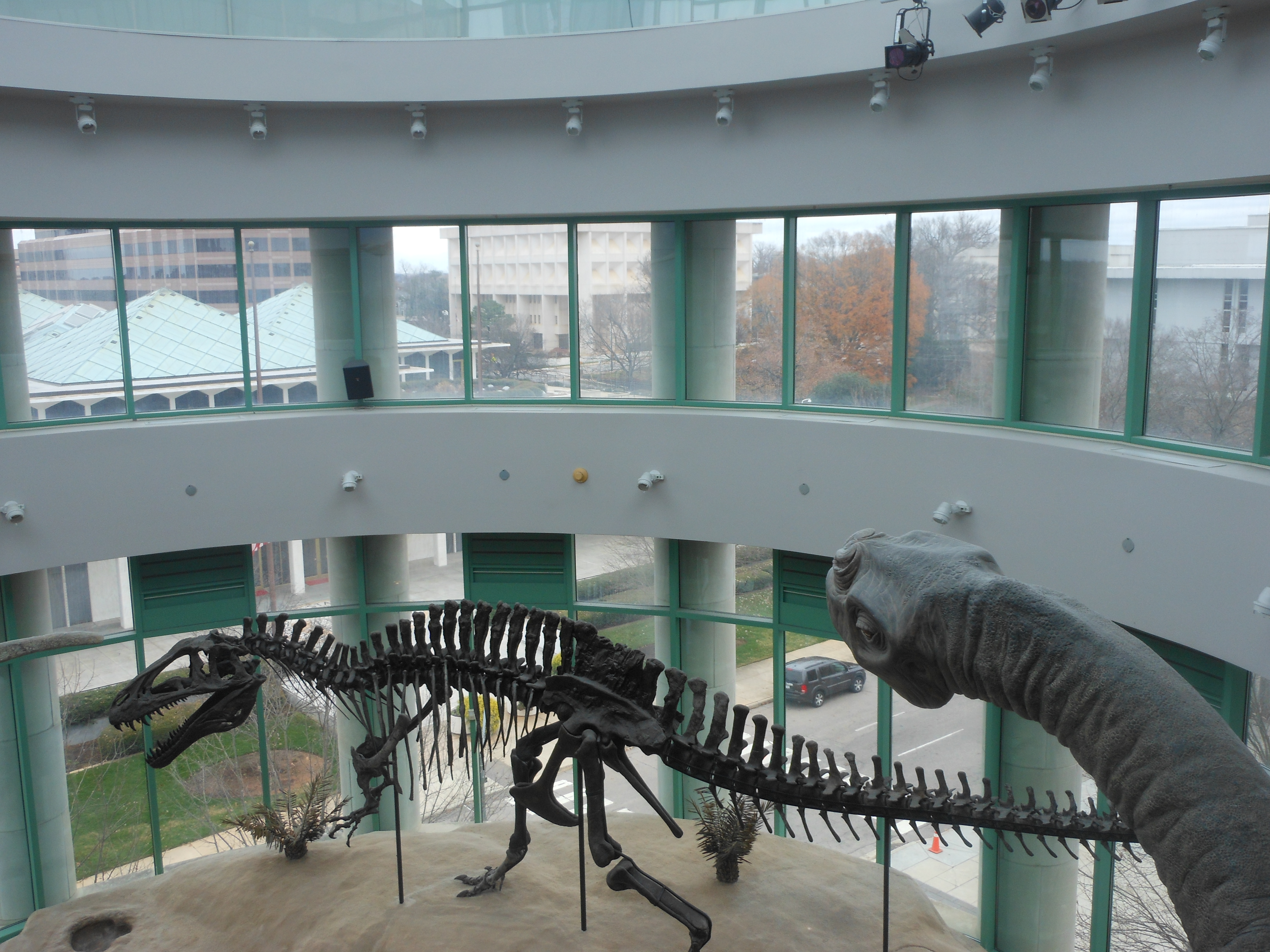 Dinosaur displays at North Carolina Museum of Natural Science in Raleigh, NC. The central skeleton is an Acrocanthosaurus.